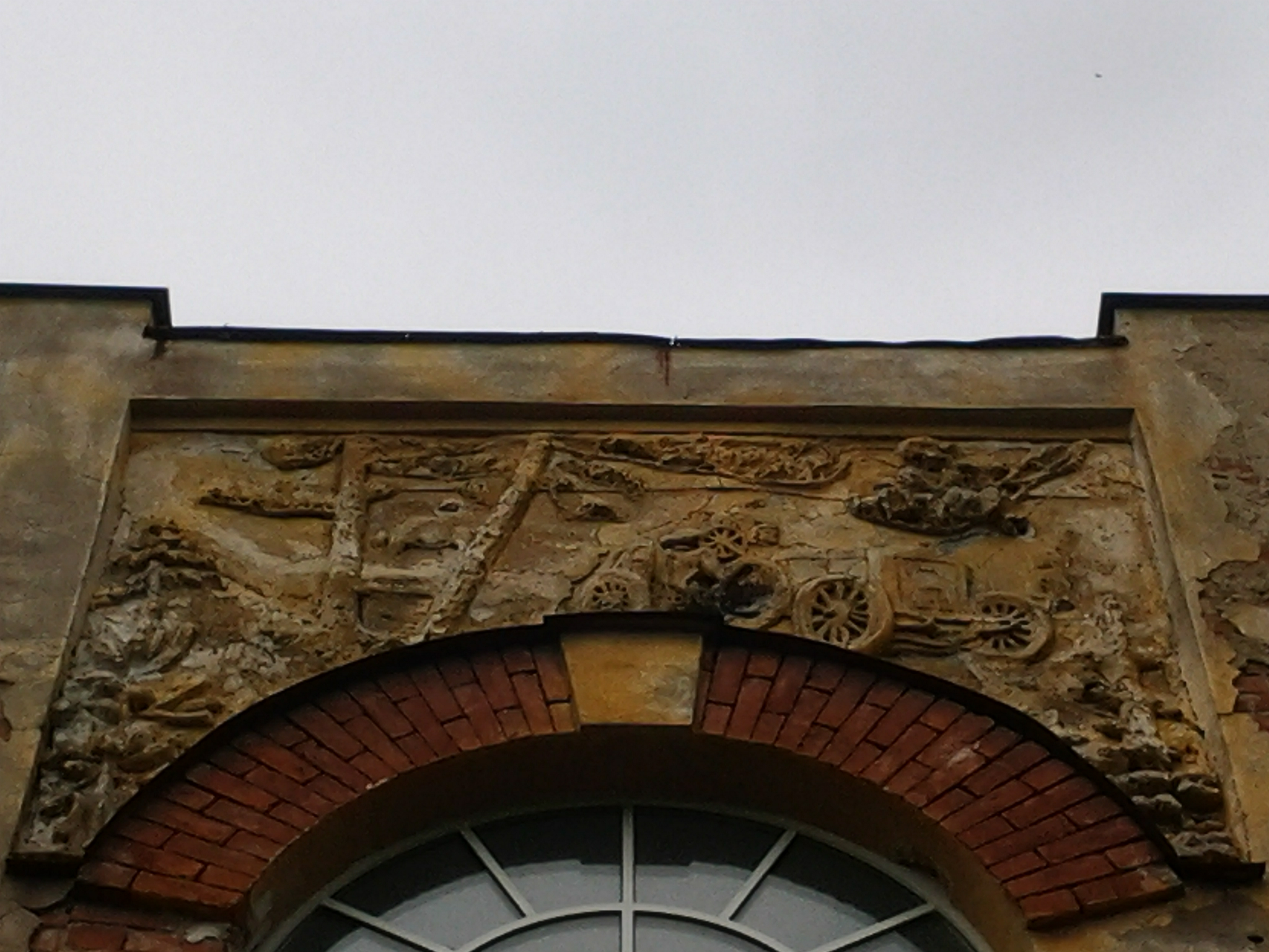 Mural of Veteran Racing Car, Russian Imperial/Tsar's Garages for cars at Pushkin Tsarskoye Selo; Akademicheskiy prospect, Pushkin, Sankt-Peterburg, Russian Federation